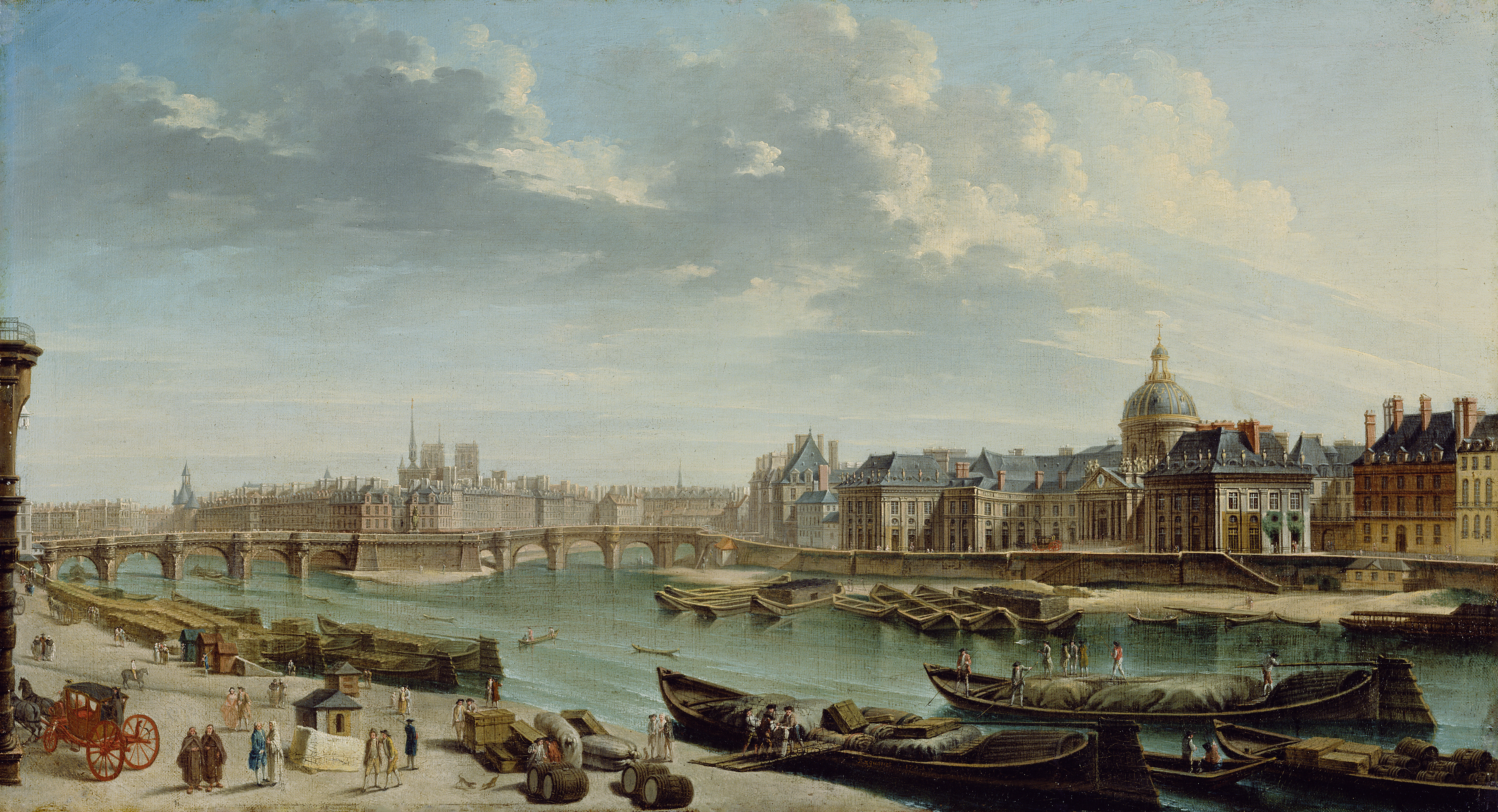 Boats filled with cargo make their way down the Seine River. On the near shore, several boats have docked and are unloading while gentlemen conduct business near by. During the late 1700s Paris was a bustling commercial center, and market places like this one were becoming a common sight. On the right is the Pont Neuf, one of the oldest bridges in Paris. Behind the bridge, is a triangular bit of land, the Île de la Cité; the twin towers of the façade of Nôtre Dame are visible in the far distance. On the other side of the river is the Institute of France. Jean-Baptiste Nicolas Raguenet used a large horizontal format for his panoramic view, much like that used by Canaletto in his views of Venice. Grand Tourists often bought such urban views as souvenirs of their European travels. Raguenet specialized in views of Paris and owned a small shop for their sale in the rue de la Colombe on the Île de la Cité. This view of Paris in the 1700s and its companion piece, View of Paris from the Pont Neuf, were probably made for an English patron, Lord Holland.